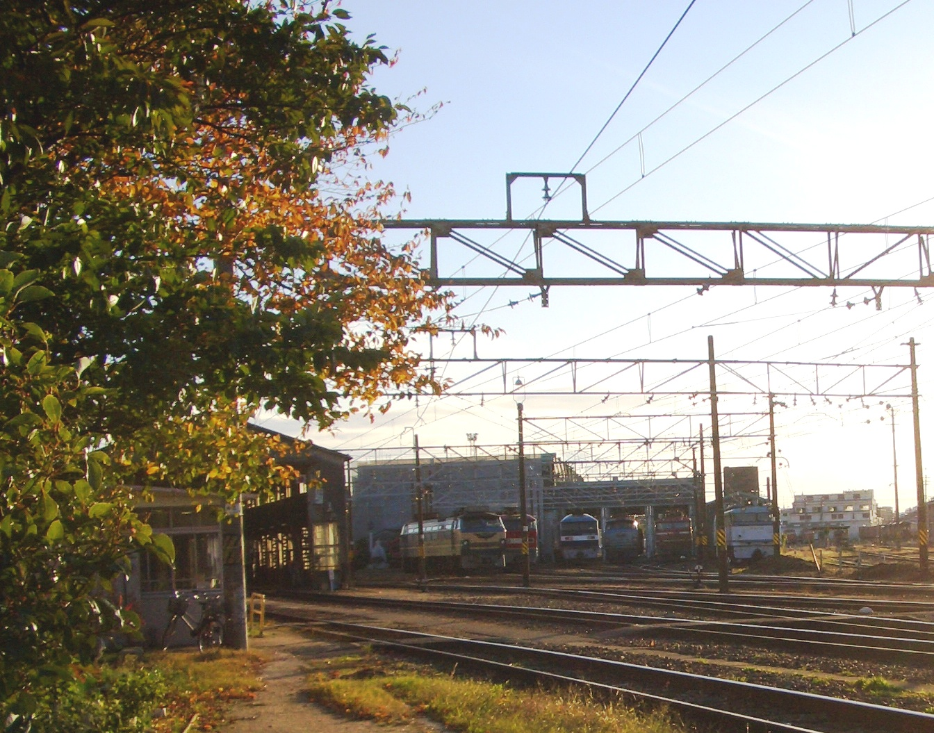 Suita goods train base in Suita city, Osaka, Japan. Locomotives base.Japan Freight Railway Company. 吹田機関区